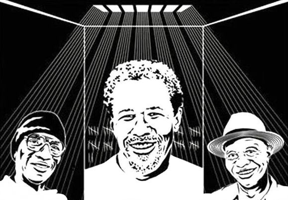 Drawing of the Angola Three